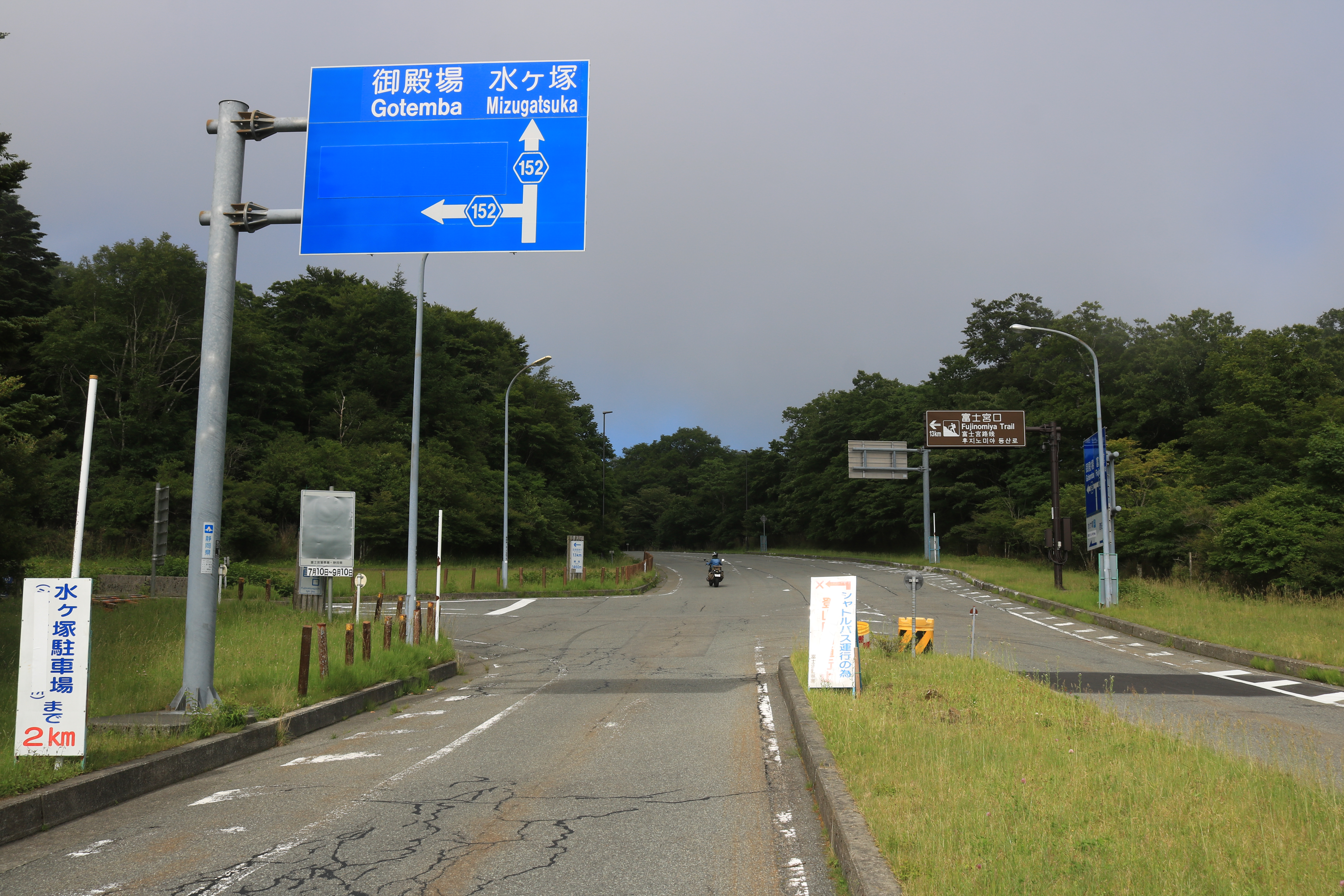 Shizuoka Prefectural Road Route 152 and Shizuoka Prefectural Road Route 180 in Obuchi, Shizuoka Prefecture, Japan.